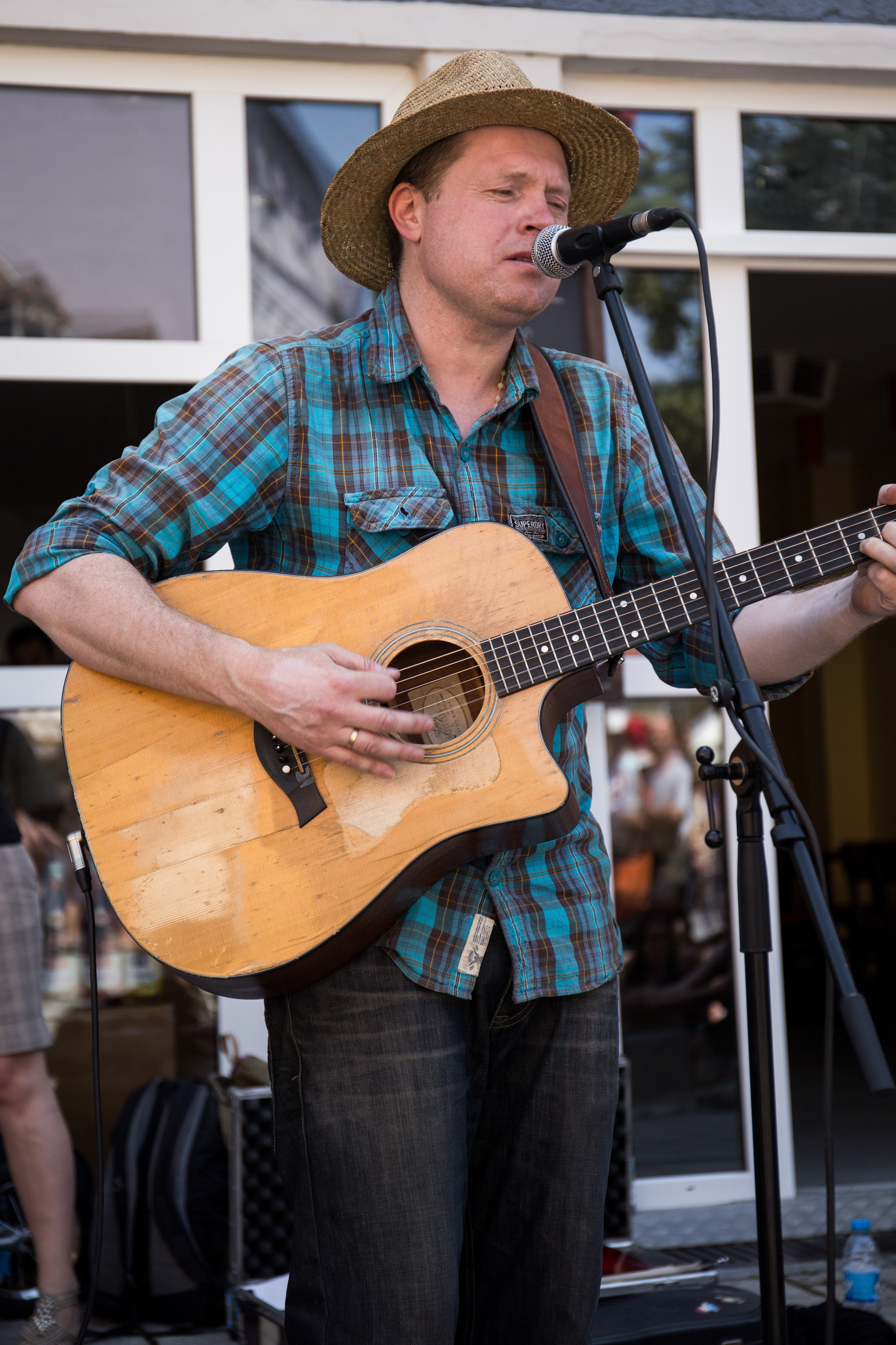 Festivalsommer This photo was created with the support of donations to Wikimedia Deutschland in the context of the CPB project "Festival Summer".